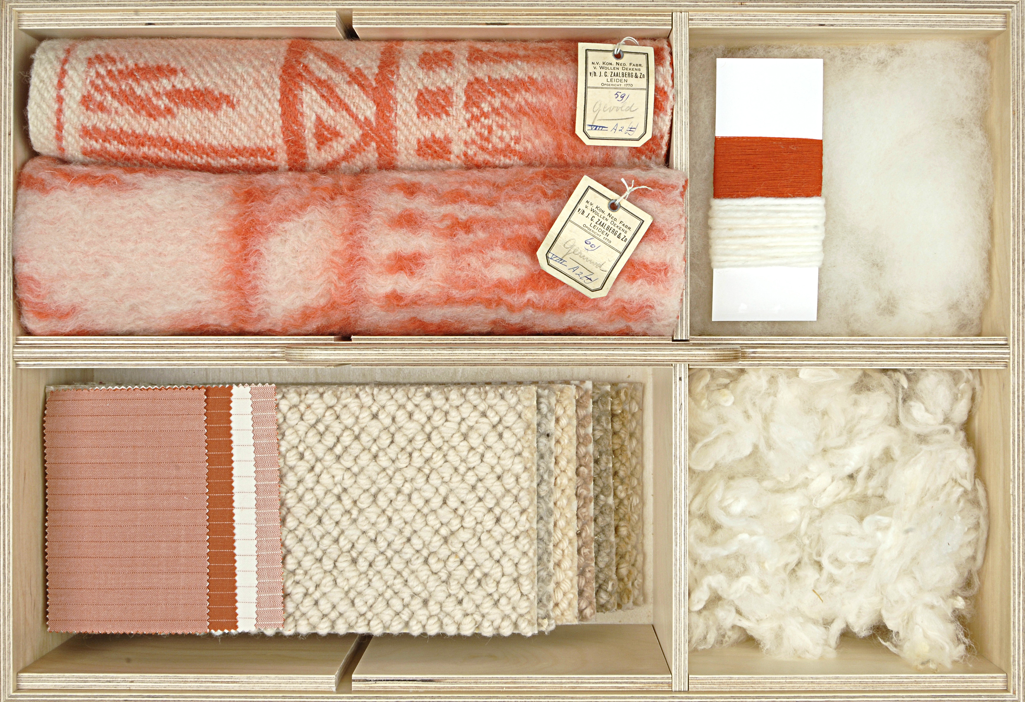 Wool, combed and uncombed washed wool, yarn, clothing textile, carpeting, blanket. Tray and samples of the textile cabinet in the Textielmuseum in Tilburg. Cabinet interior made by Simone de Waart, Material Sense.